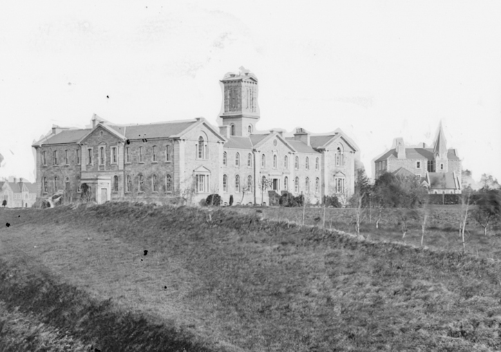 This single slide from a stereo pair shows a large institutional building and a railway line in the bottom left hand corner. It was quickly/skilfully identified by [/photos/129555378@N07/ sharon.corbet] as the Hevey Institute in Mullingar - which [/photos/47297387@N03/ Carol Maddock] informs us is now the Coláiste Mhuire (CBS) school. Photographers: Frederick Holland Mares, James Simonton Contributor: John Fortune Lawrence Collection: [#//catalogue.nli.ie/Collection/vtls000034077 The Stereo Pairs Photograph Collection] Date: between ca. 1860-1883 NLI Ref: STP_2179 You can also view this image, and many thousands of others, on the NLI’s catalogue at